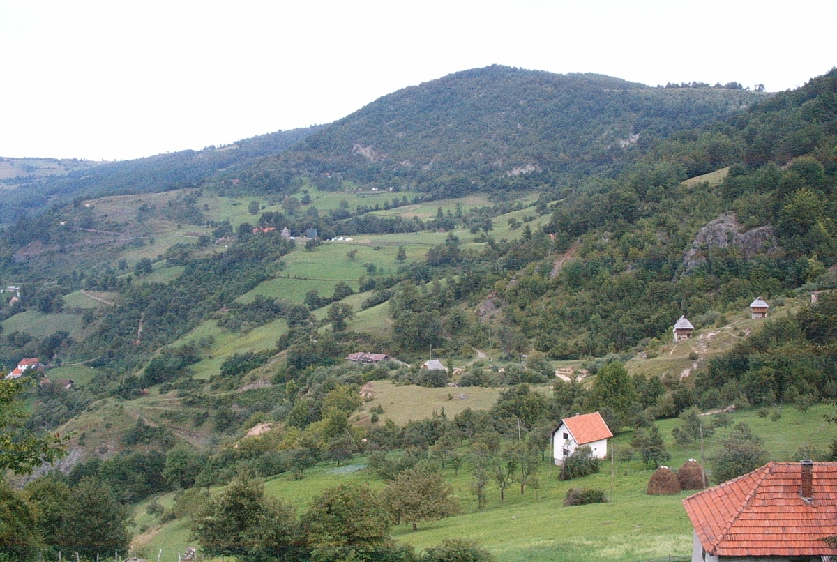 View on Sopotnica on Jadovnik,Prijepolje municipality,Serbia.